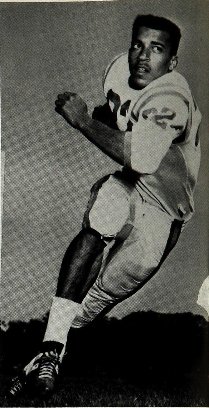 Garry Lyle, African American football player, in GW uniform, runs in a promo shot.